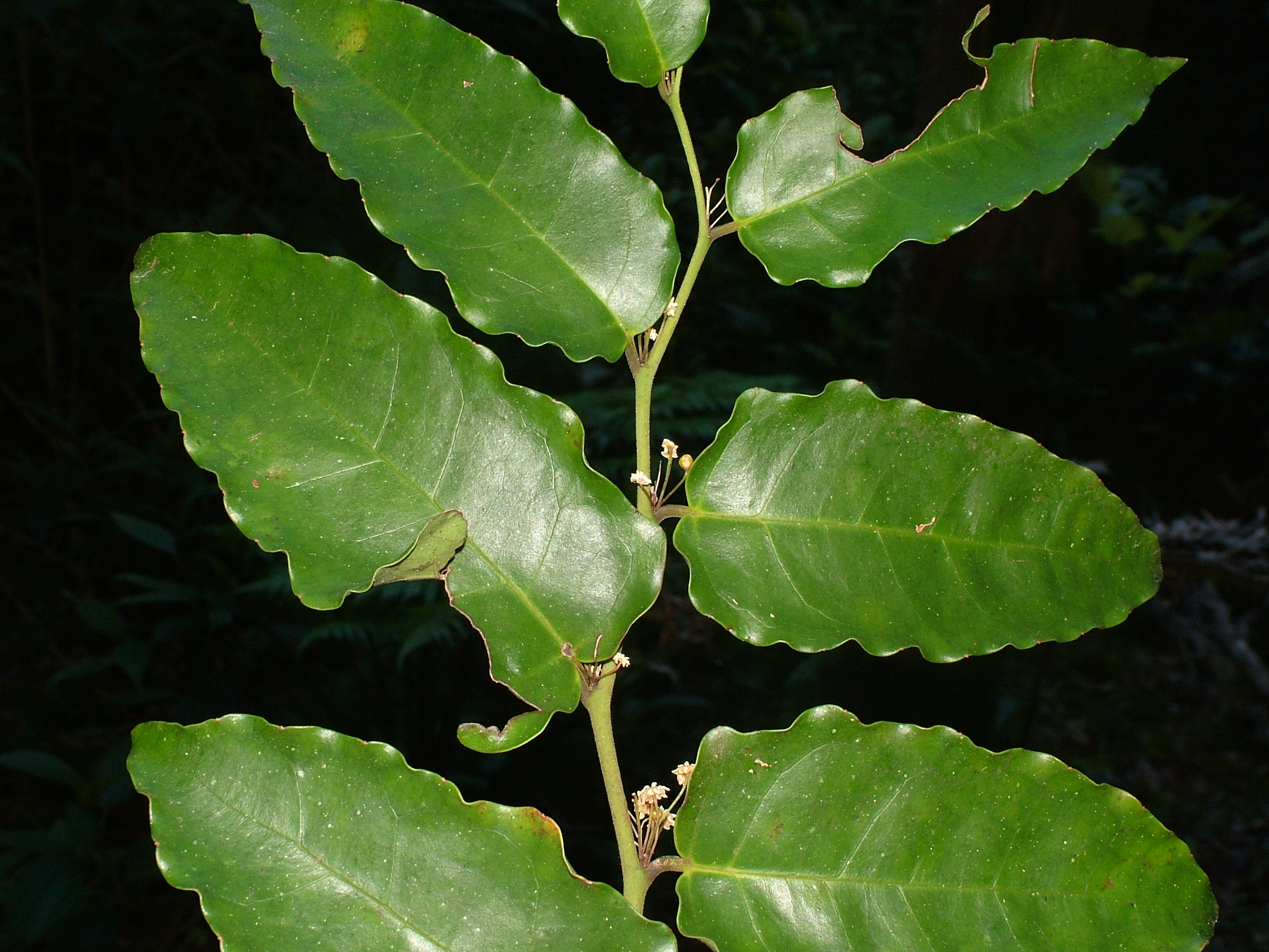 Amborella trichopoda, track to Plateau de Dogny, New Caledonia